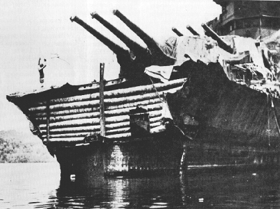 The U.S. Navy heavy cruiser USS Minneapolis (CA-36) at Tulagi with a jury-rigged temporary bow made of coconut logs and steel beams to get the ship out of the fighting area around Guadalcanal. She was damaged in the Battle of Tassafaronga.